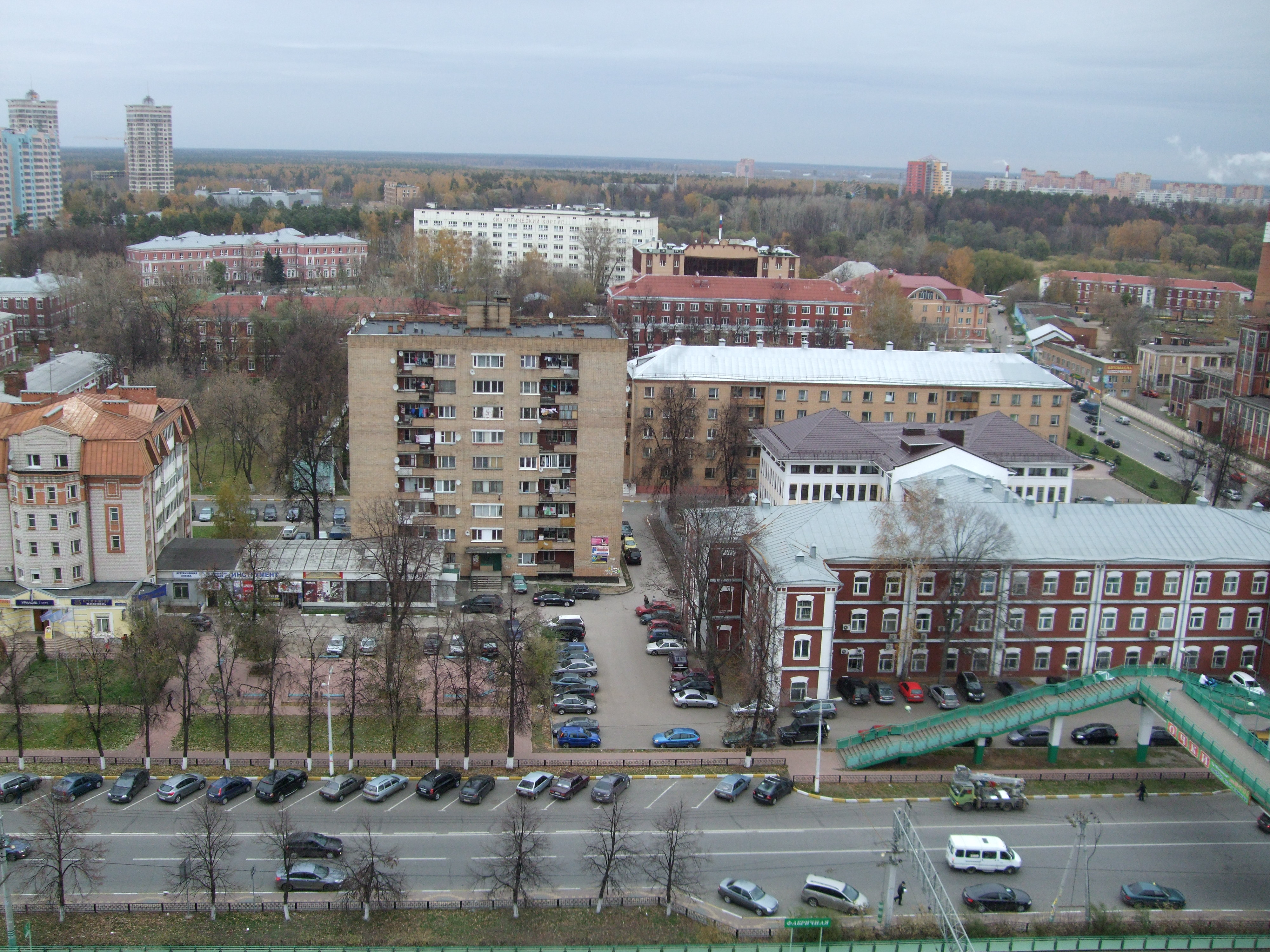 One of views of town Ramenskoye (Russia)